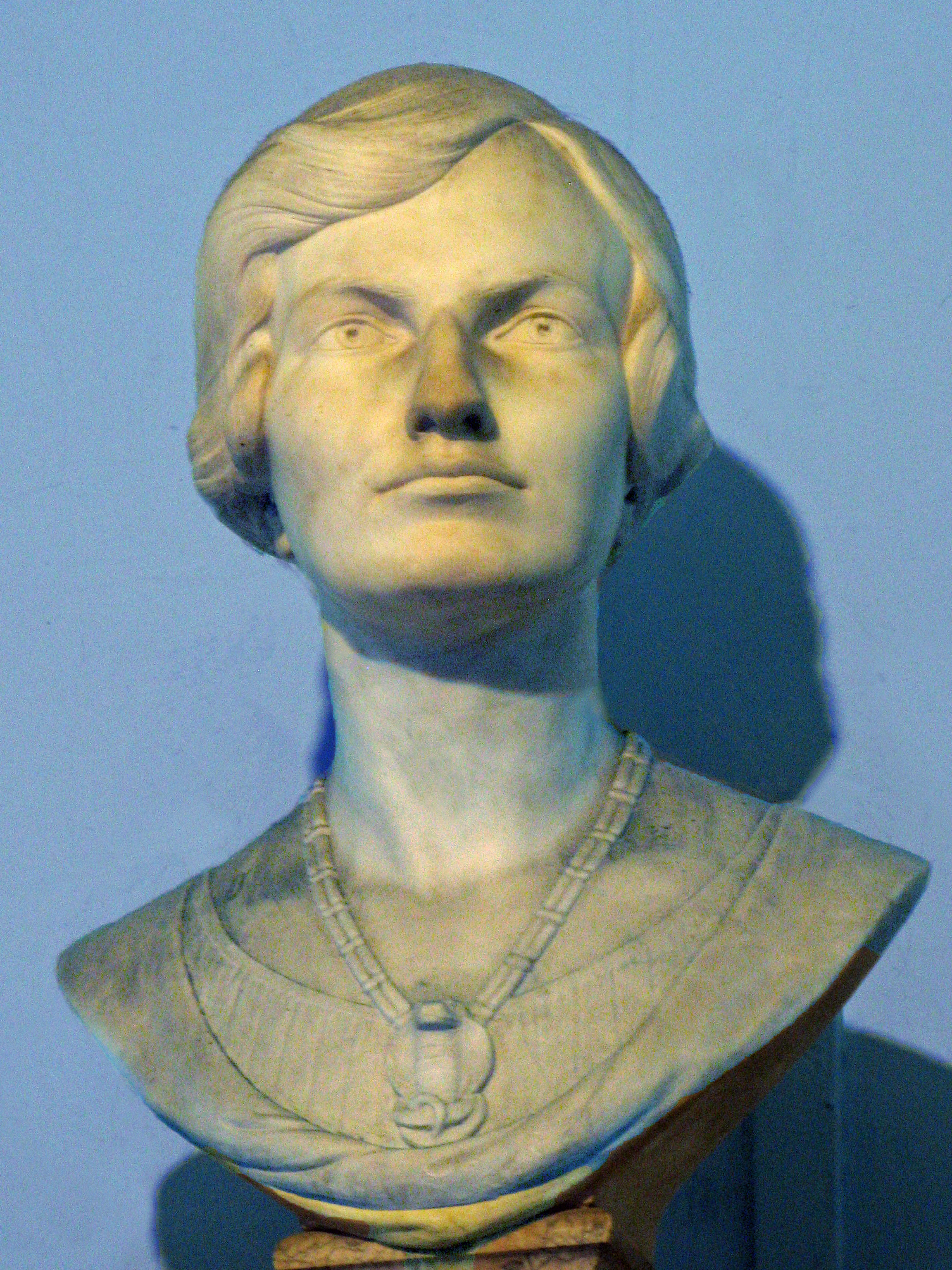 This marble bust of Joan Beauchamp Procter was sculpted by George Alexander and exhibited at the Royal Academy in London in 1931. It was subsequently presented to the Zoological Society of London and is now permanently displayed with a commemorative bronze plaque at the entrance to the Reptile House at London Zoo